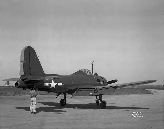 Template:Eb